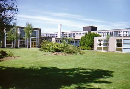 Woodham CTC